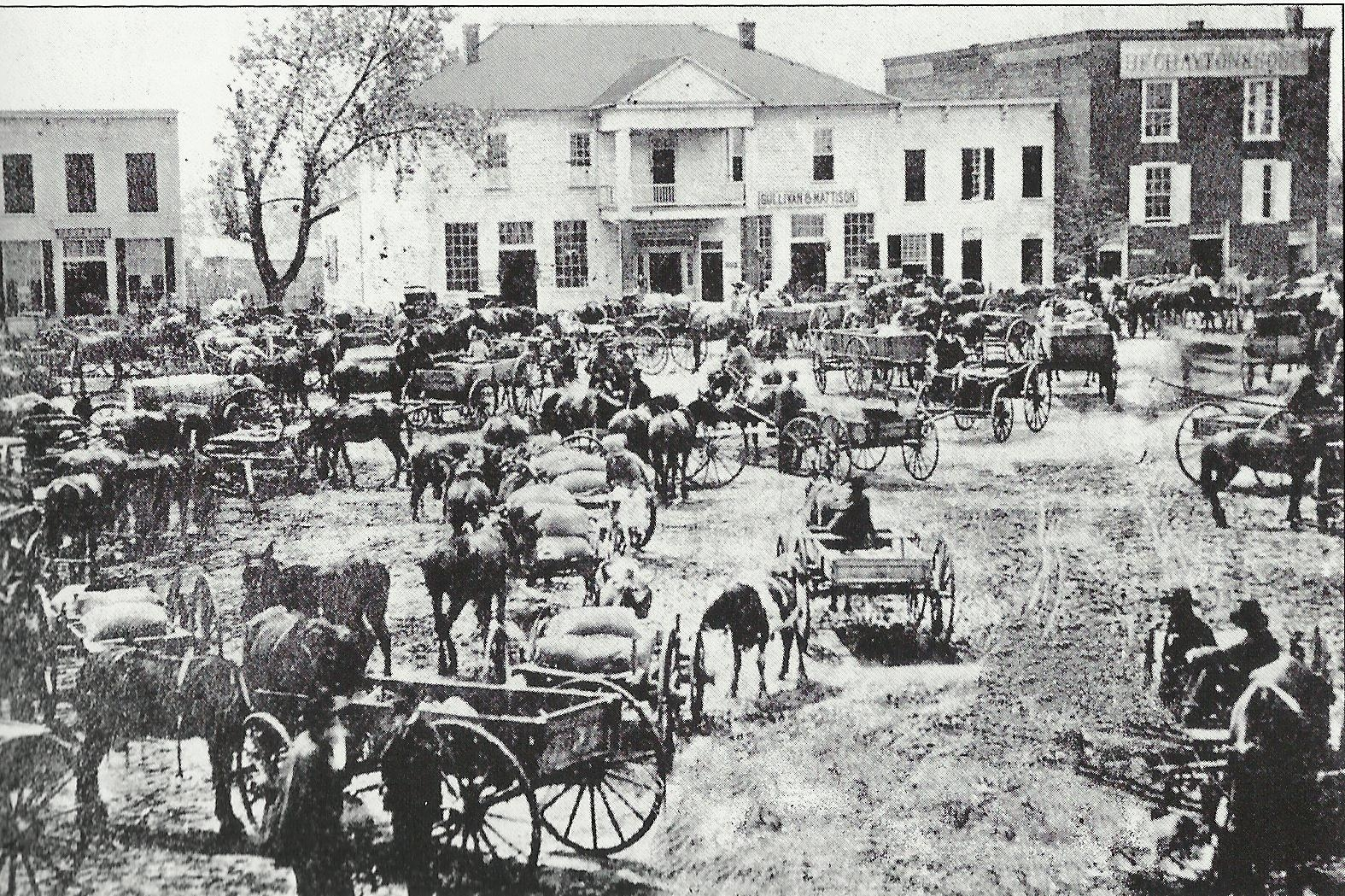 East Benson Street Block in Anderson, SC in 1876